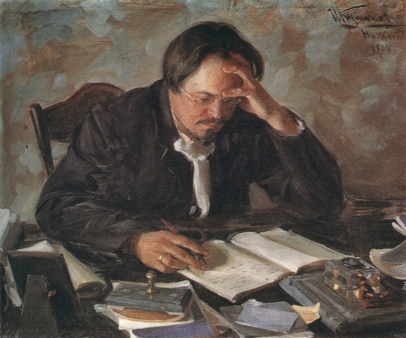 Painting of Russian writer Evgeny Chirikov